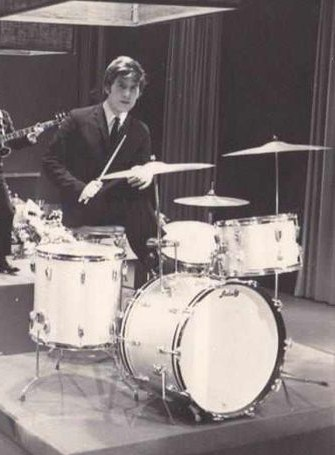 Chris Curtis of The Searchers playing in TV-show Nuorten tanssihetki on year 1964